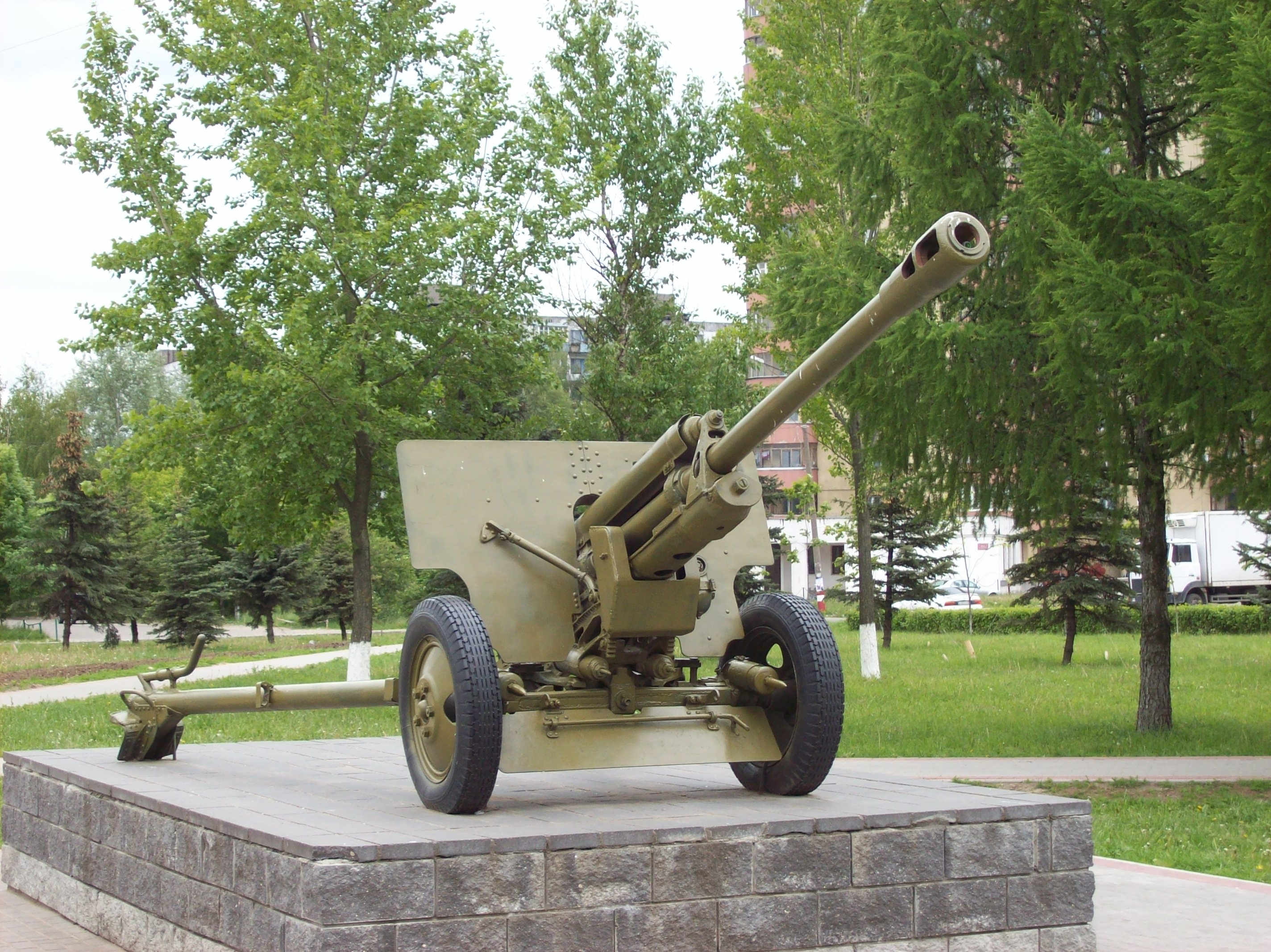 76 mm divisional gun M1942 (ZiS-3)